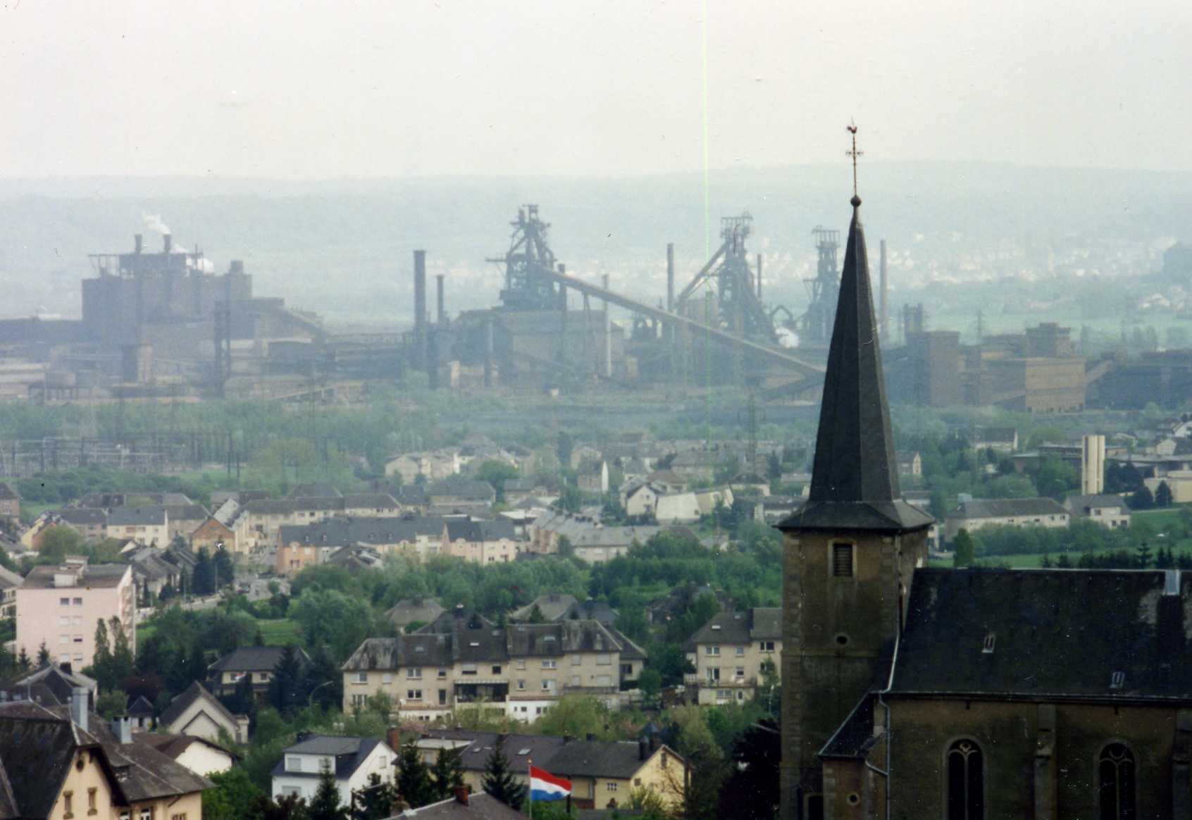 (original comment:) The last blast furnace was put out at Belval in 1997. [...T]he ARBED operation at Belval [have been] founded in 1911. ARBED stands for Aciéries Réunies de Burbach-Eich-Dudelange. In 2002, Arcelor was created, and ARBED donated the first two letters to Lakshmi Mittal's empire, Arcelor-Mittal which happens to be based in Luxembourg, probably for tax efficiency. (Additional info:) Picture taken from the "Zolwerknapp", with the village of Soleuvre in the forefront.